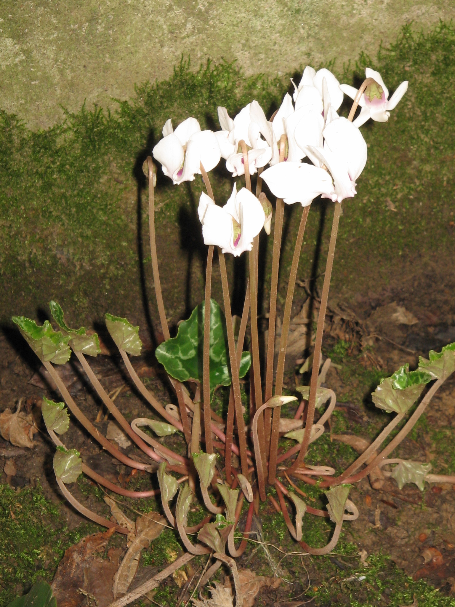 Cyclamen hederifolium 'Album' seedling